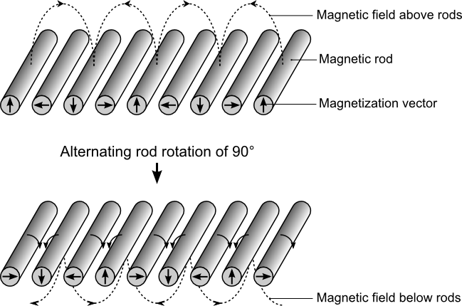 Schematic of a Halbach array consisting of magnetized rods. The field swaps from above to below the plane of the device when each rod is alternately rotated by 90 degrees.